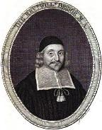 William Bridge (c1600-1670)